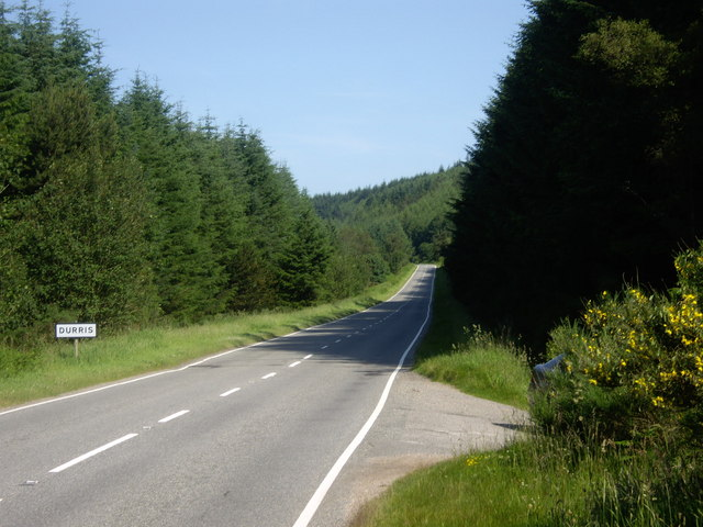 Climb to the Durris summit Northwards on the A957, Slug Road.